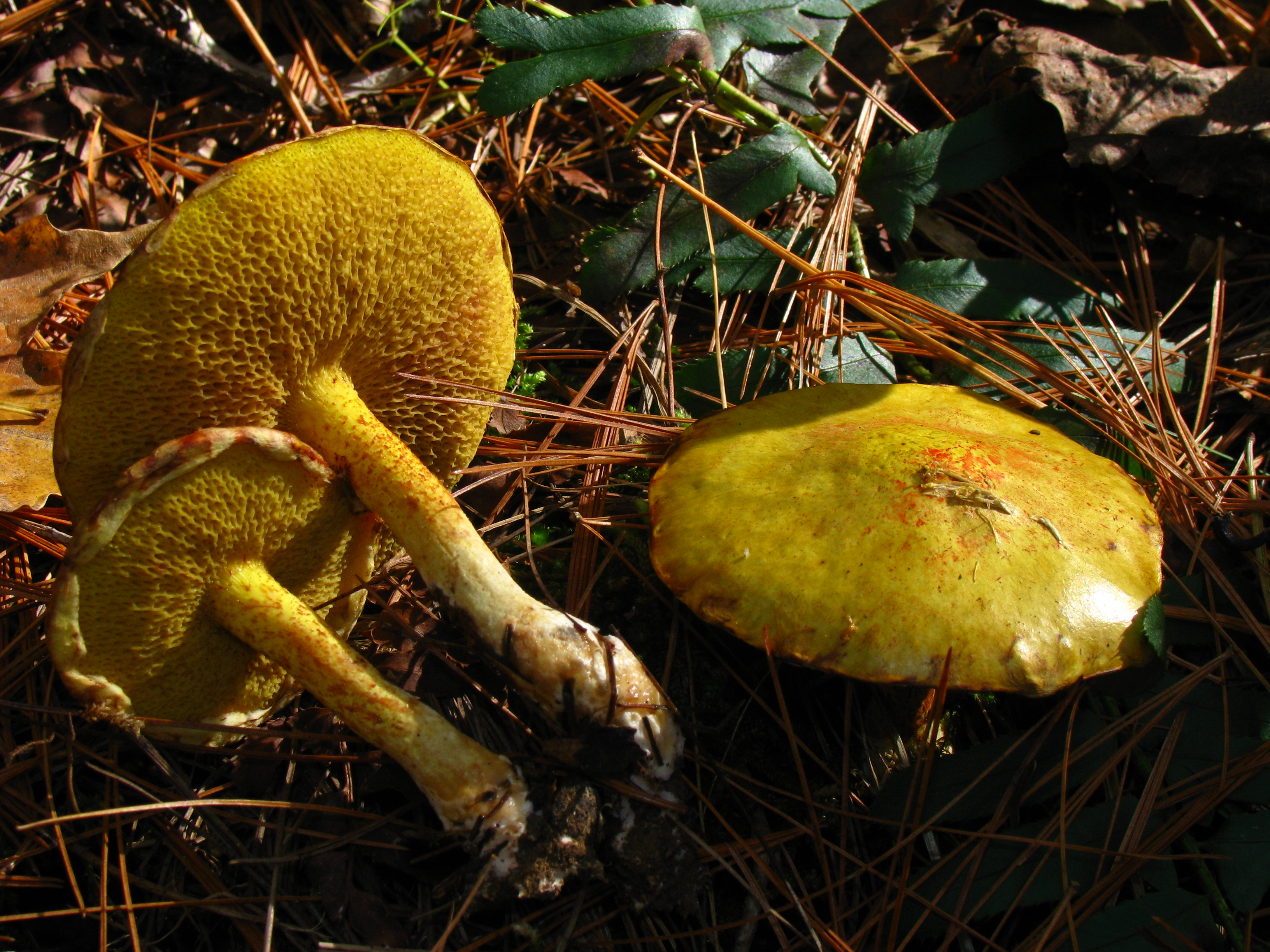 The bolete mushroom Suillus americanus (Peck) Snell. Specimens photographed in Strouds Run State Park, Athens, Ohio, USA.